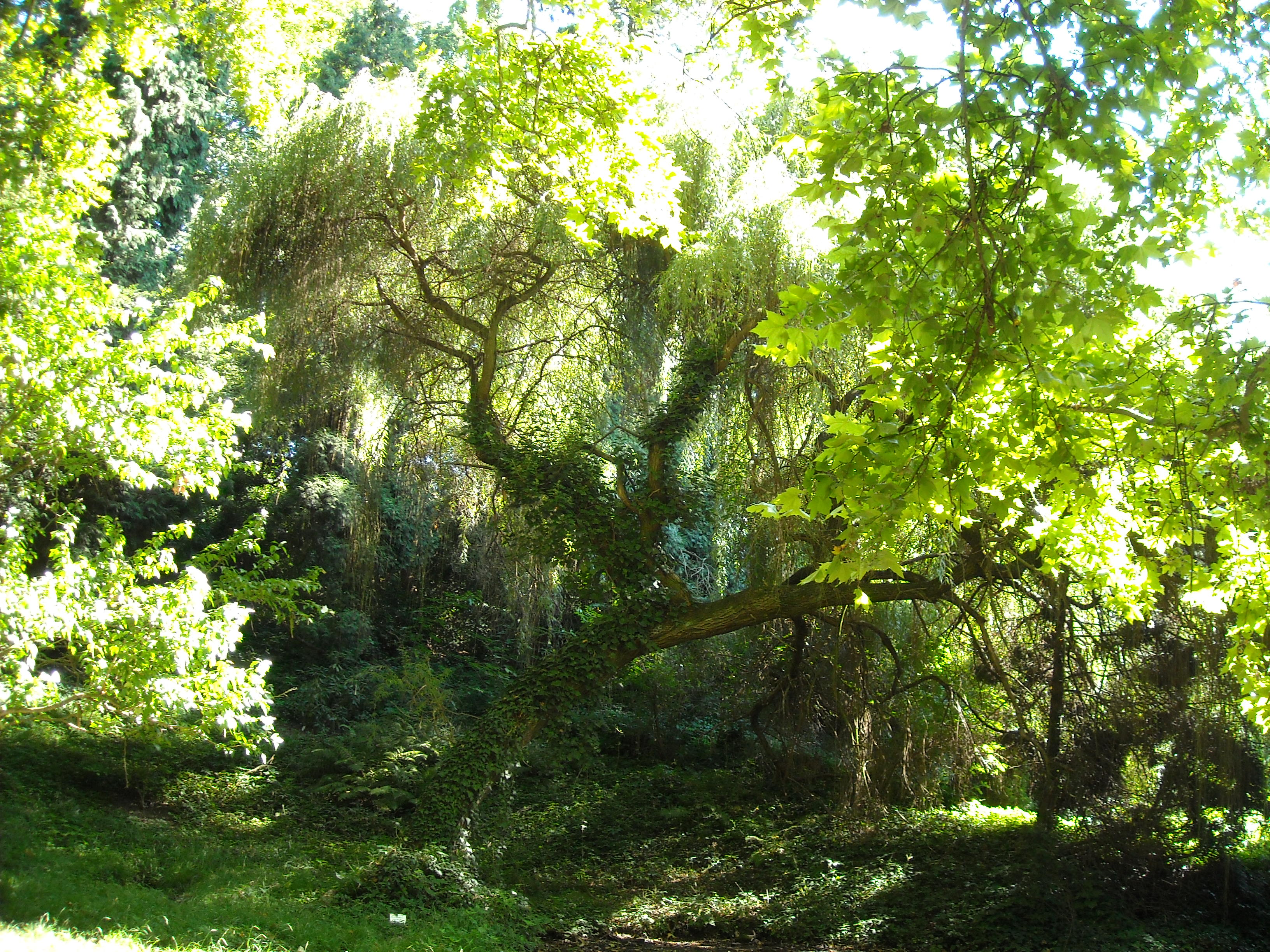 West-Vlams: weeping willow in the Simeria (Biscaria) arboretum